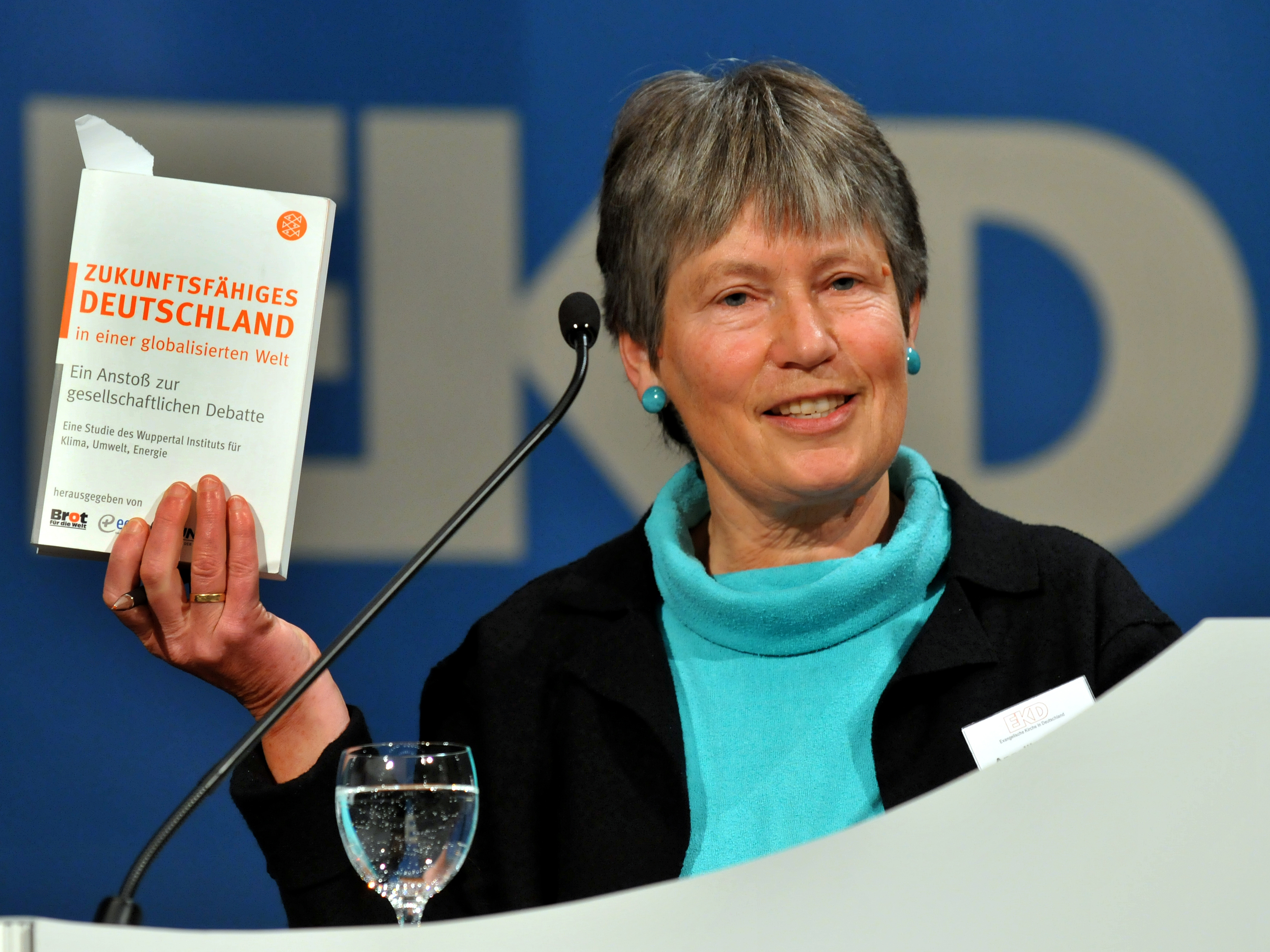 Angelika Zahrnt, Honorary Chairwoman of BUND für Umwelt und Naturschutz e.V. - Friends Of The Earth Germany